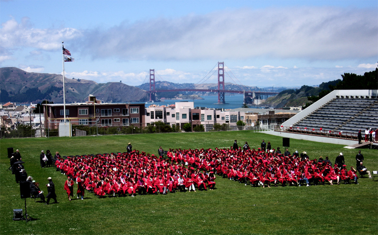 My own image